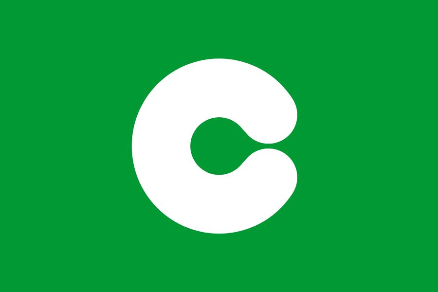 Flag of Kumamoto, Kumamoto